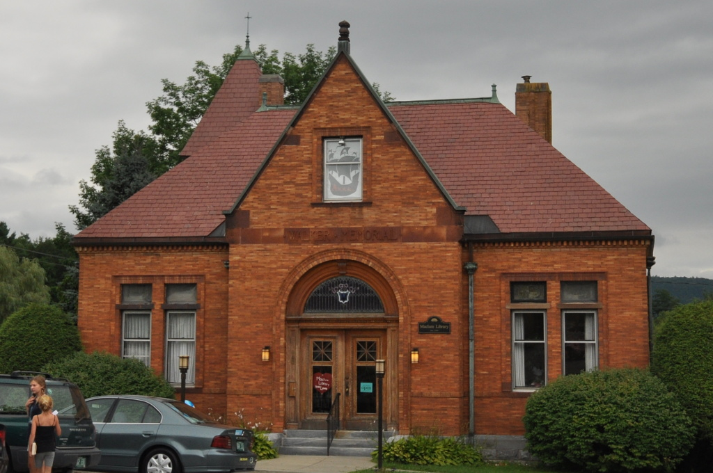 Public library, Pittsford, Vermont.